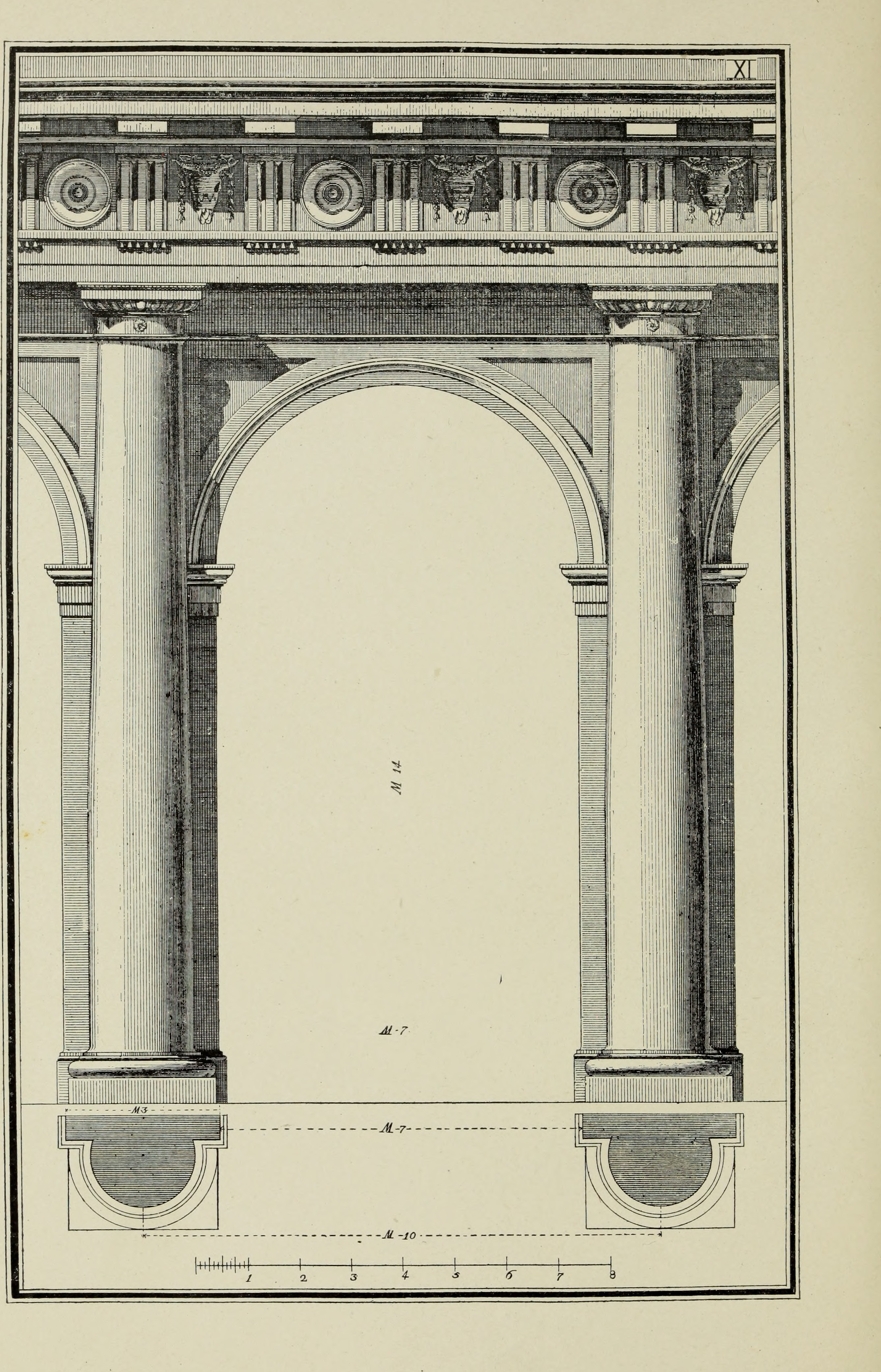 Title: The five orders of architecture Year: 1889 (1880s) Authors: Vignola, 1507-1573 Juglaris, Tommaso Locke, Warren S Subjects: Architecture Publisher: (Boston, Press of Berwick & Smith) Text Appearing Before Image: PLATE X. SIMPLE DORIC INTERCOLUMNIATIOK From this arrangement are taken the measurements forall the modifications of the Doric Order. We divide the total height into 20 parts, one of whichserves us as the modulus, and which is also divided into 12parts. The base, with the fillet of the base of the column,is 1 modulus high. The shaft, with fillet and bead, is 14moduli high. The capital has a height of 1 modukis. The entablature is 4 moduli high, or \ of column withbase and capital. The total height is 20 moduli, and isdivided as just described. The best spacing of columns in this modification of theDoric Order is 1^ moduli between centers. This spacinggives a nice adjustment of the triglyph and metope. Thecenters of triglyph and column must be in line with eachother. Text Appearing After Image: PLATE XI. ARCHED DORIC INTERCOLUMNIATION, In this modification of the Doric Order the proportionsare two to one (20 to 10) ; that is, the total height is twicethe distance between centers of columns. The distancebetween pilasters is 7 moduli, and the pilasters are 3 mod-uli wide, giving 10 moduli between centers of pilasters. The width of arch opening is 7 moduli, the height 14, thetop being 2 moduli below the entablature. These proportions afford the best opportunities for thearrangement of the details, notably the triglyphs andmetopes. Vignola builds one-third of his columns into the pilasters,which method brings the extreme projection of the cap ofthe pilaster to the center line of columns. The cap of the pilaster is 1 modulus thick and \ modulusprojection. For details, see previous plates.